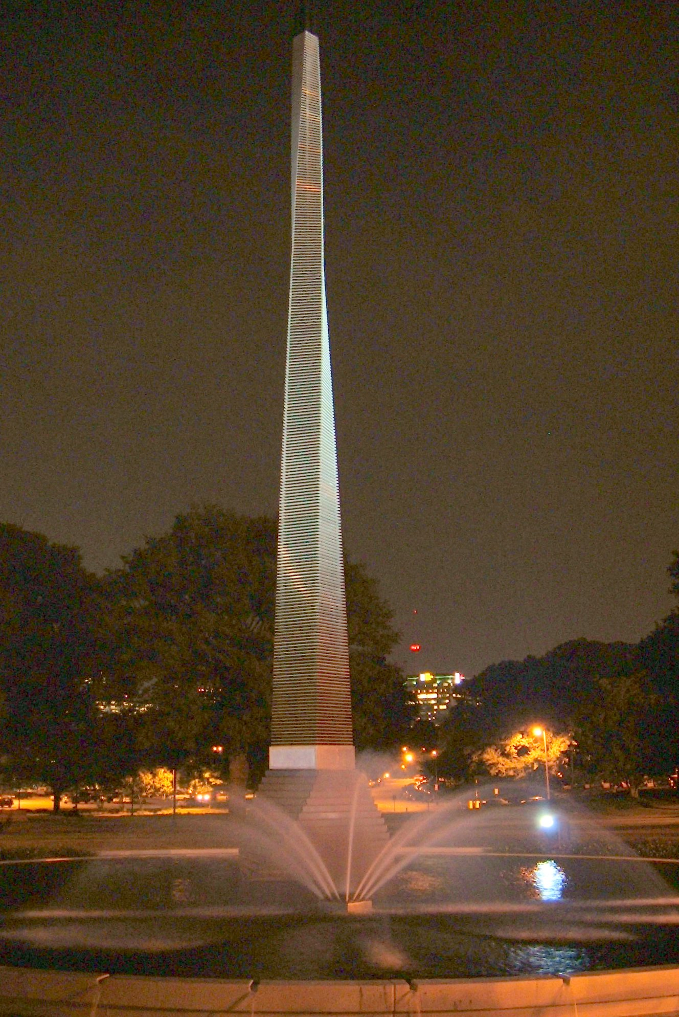 Kessler Campanile at Georgia Tech, Atlanta, GA, USA